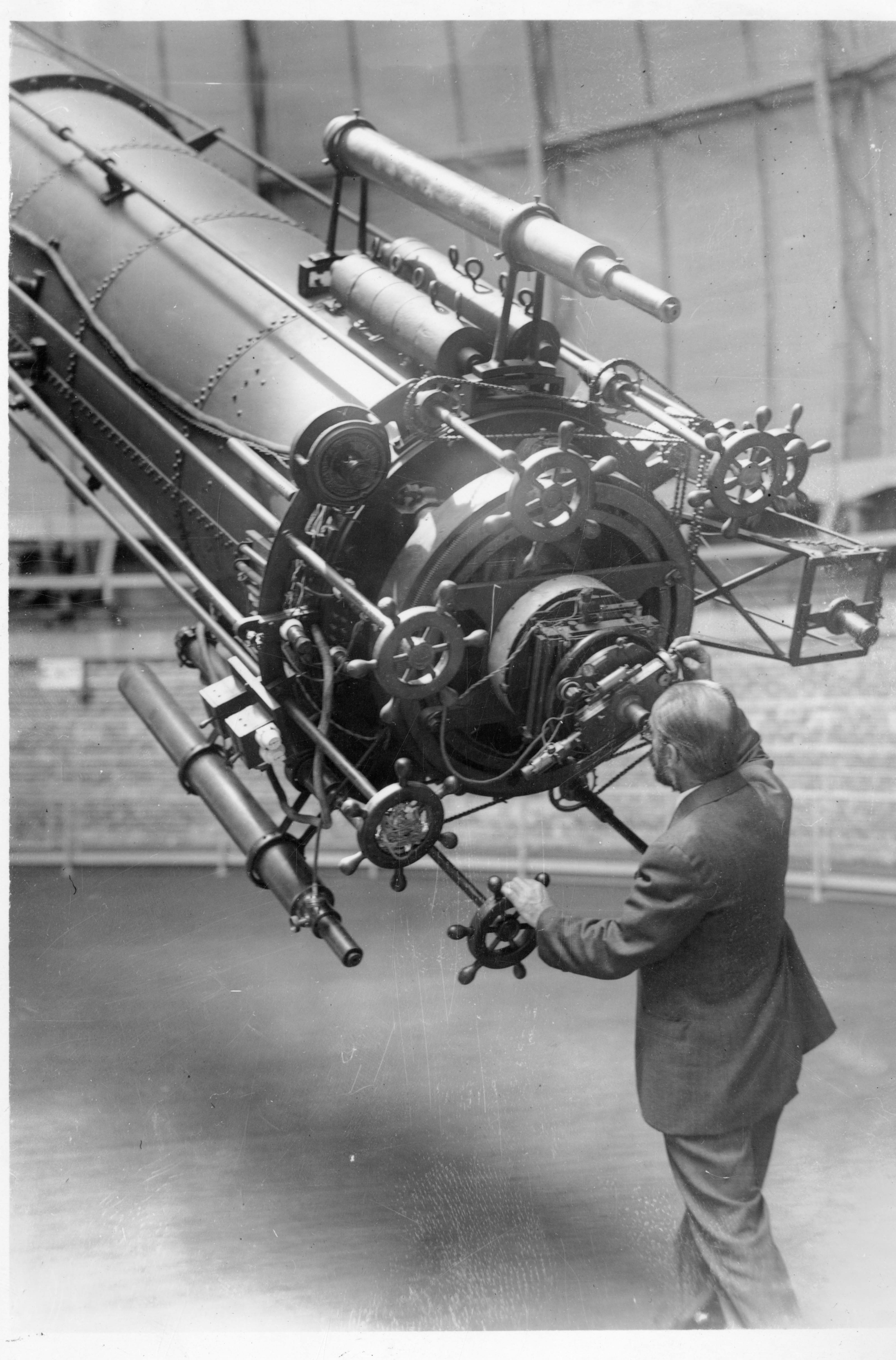 Subject: Van Biesbroeck, George 1880-1974 Yerkes Observatory Type: Black-and-white photographs Topic: Astronomy Local number: SIA Acc. 90-105 [SIA2010-0289] Summary: George A. Van Biesbroeck (1880-1974), astronomer at Yerkes Observatory observing Mars when it approached close to the earth in 1926, and using the 40 inch refracting telescope, the largest of its kind in the world Cite as: Acc. 90-105 - Science Service, Records, 1920s-1970s, Smithsonian Institution Archives Persistent URL: Repository:Smithsonian Institution Archives View more collections from the Smithsonian Institution.